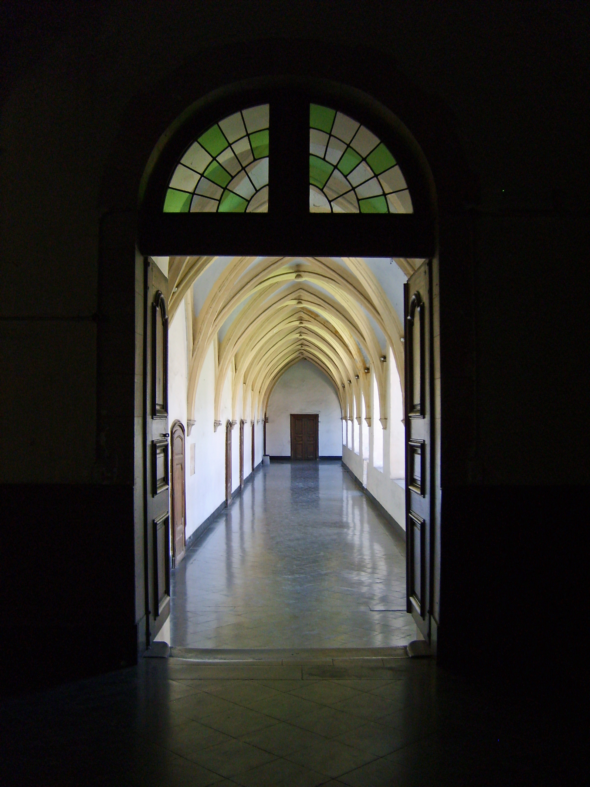 Bonne-Espérance Abbey, Vellereille-les-Brayeux (Belgium), the gothic cloister (13th century).